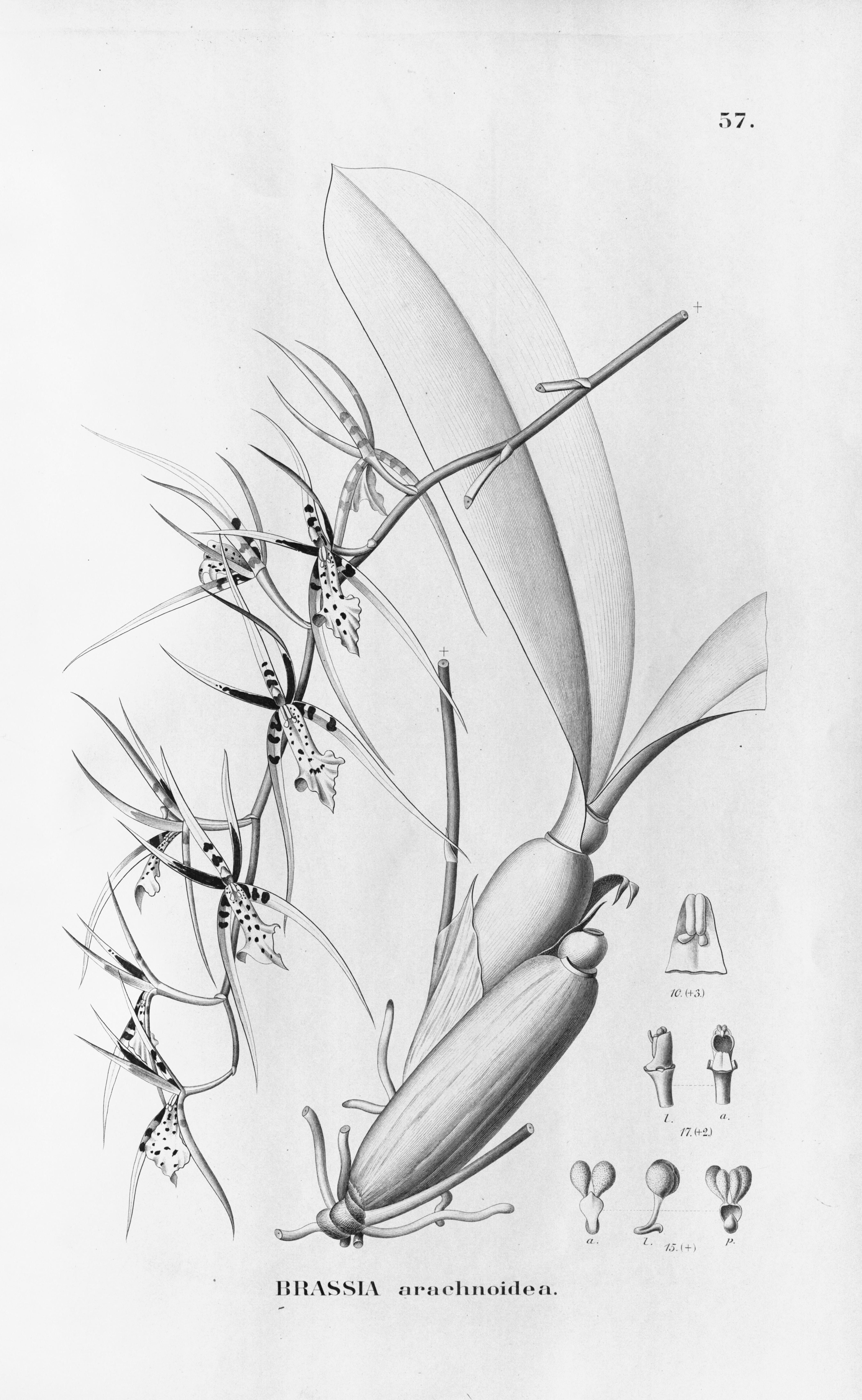 Illustration of Brassia arachnoidea